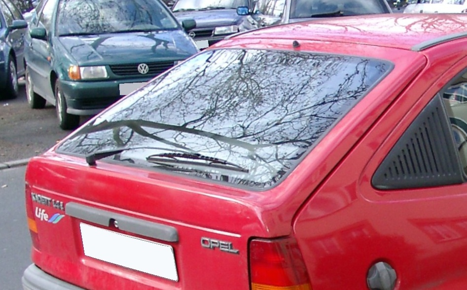 rear window and wiper Opel Kadett E Facelift